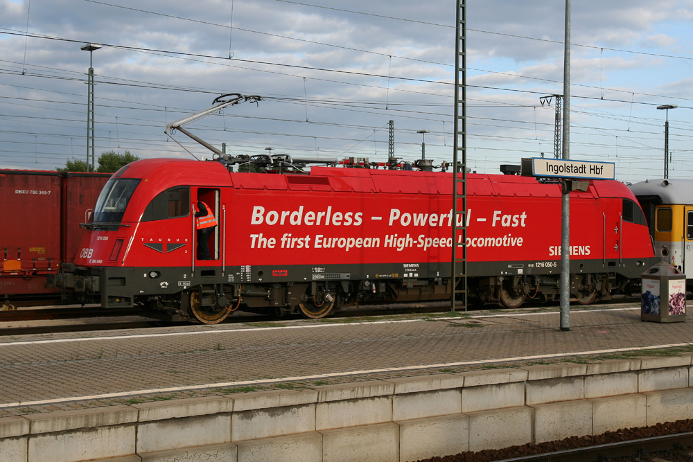 ÖBB 1216 050-5 at test drives in Ingolstadt Hbf (main station), Germany. This engine will set the speed-world-record on September 2nd, 2007 (in a different color).